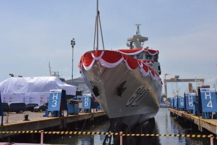 KRI Kerambit (627) being launched in Surabaya, 2018